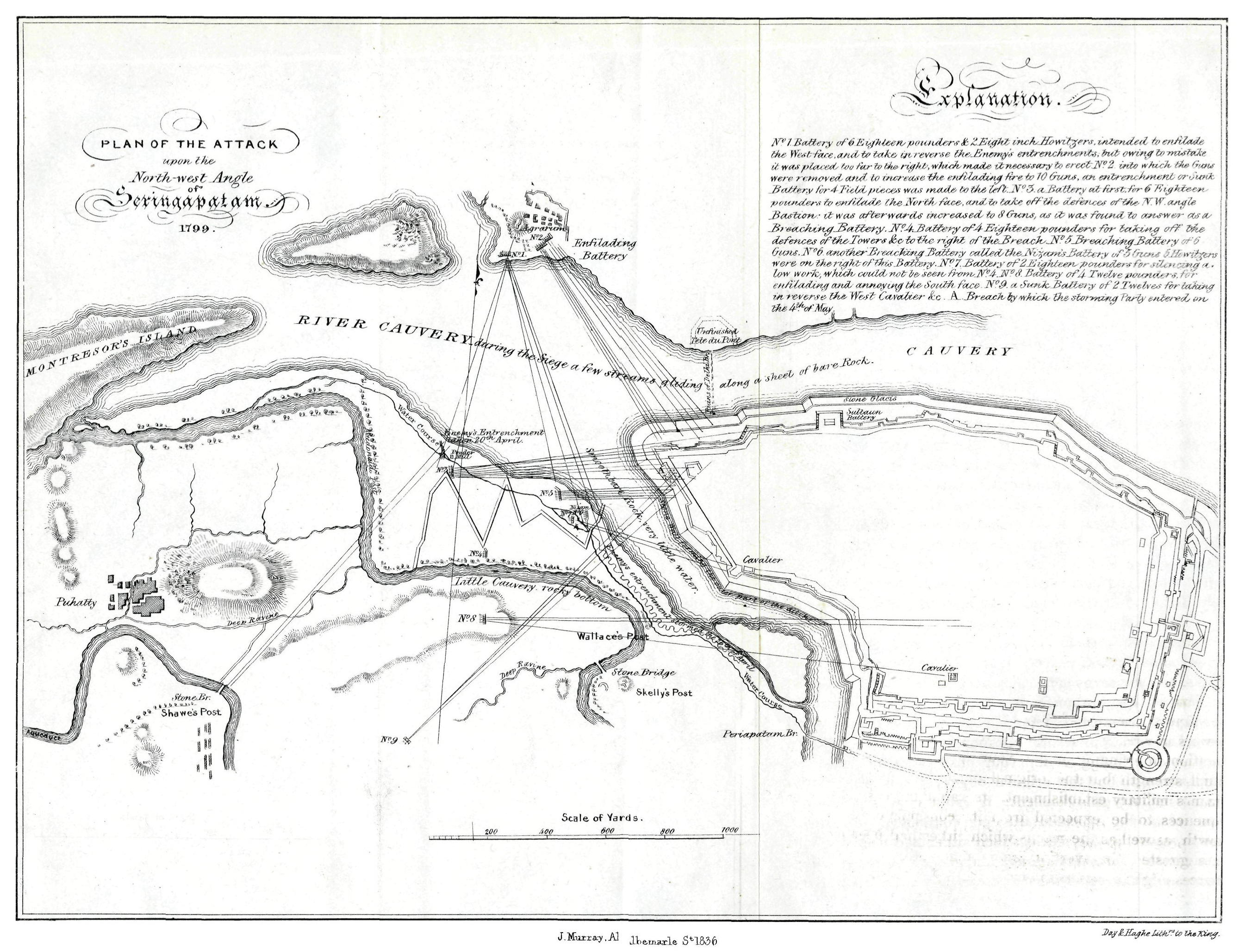 Plan of the attack upon the north-west angle of Seringapatam, 1799.